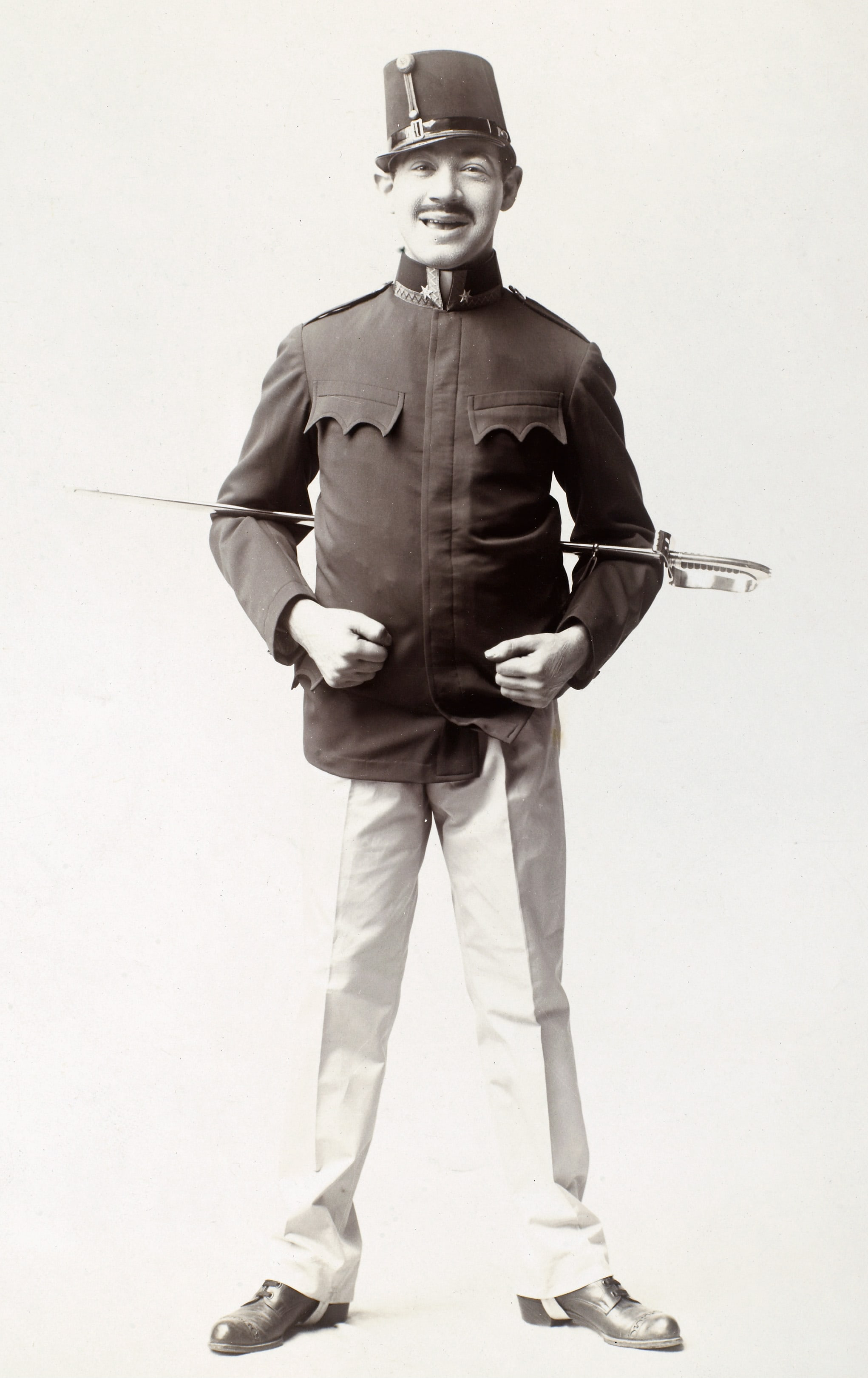 Bobby North in the New York production of Emerich Kalman's operetta The Gay Hussars 1909